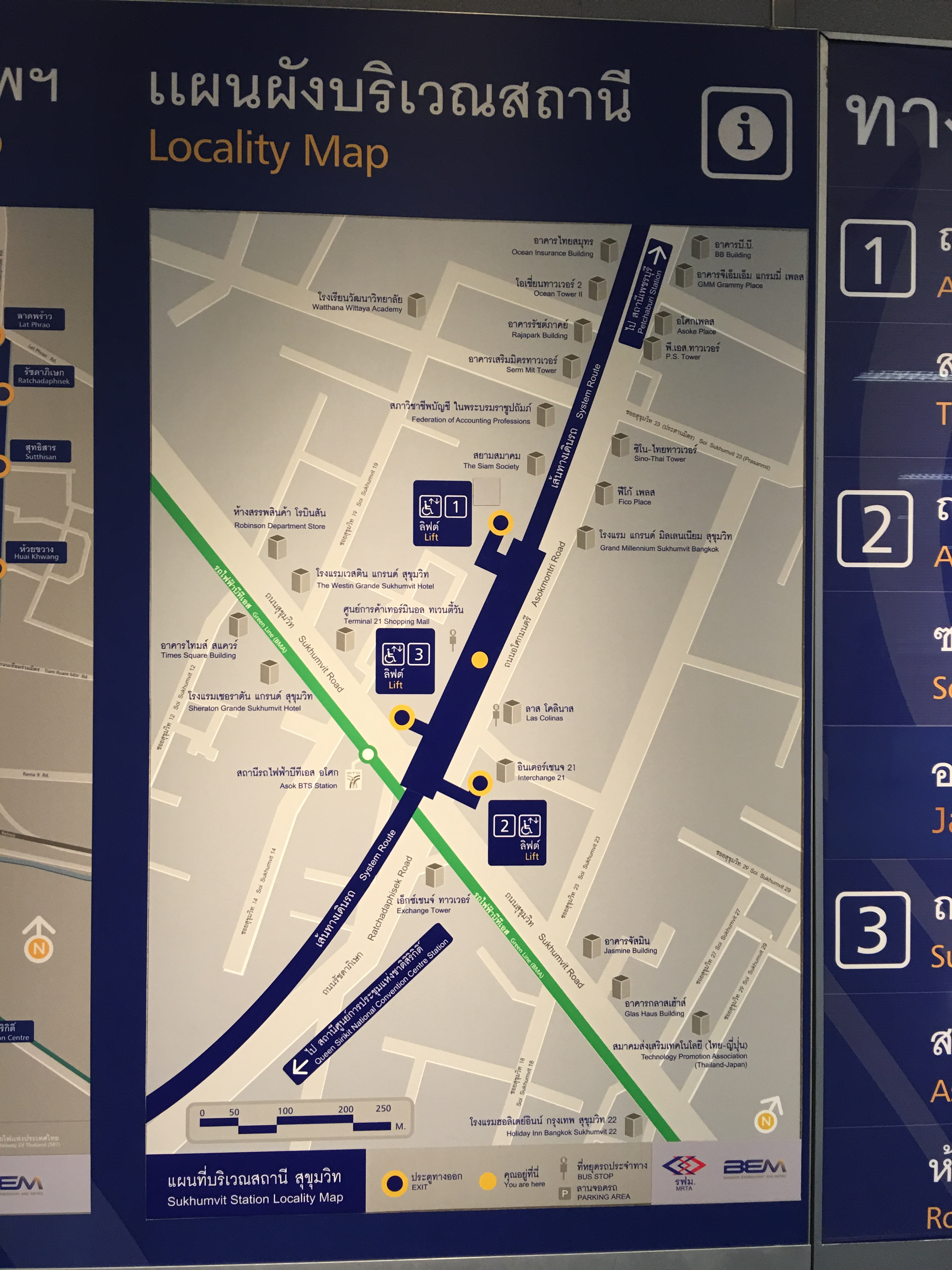 The locality map of Sukhumvit Station